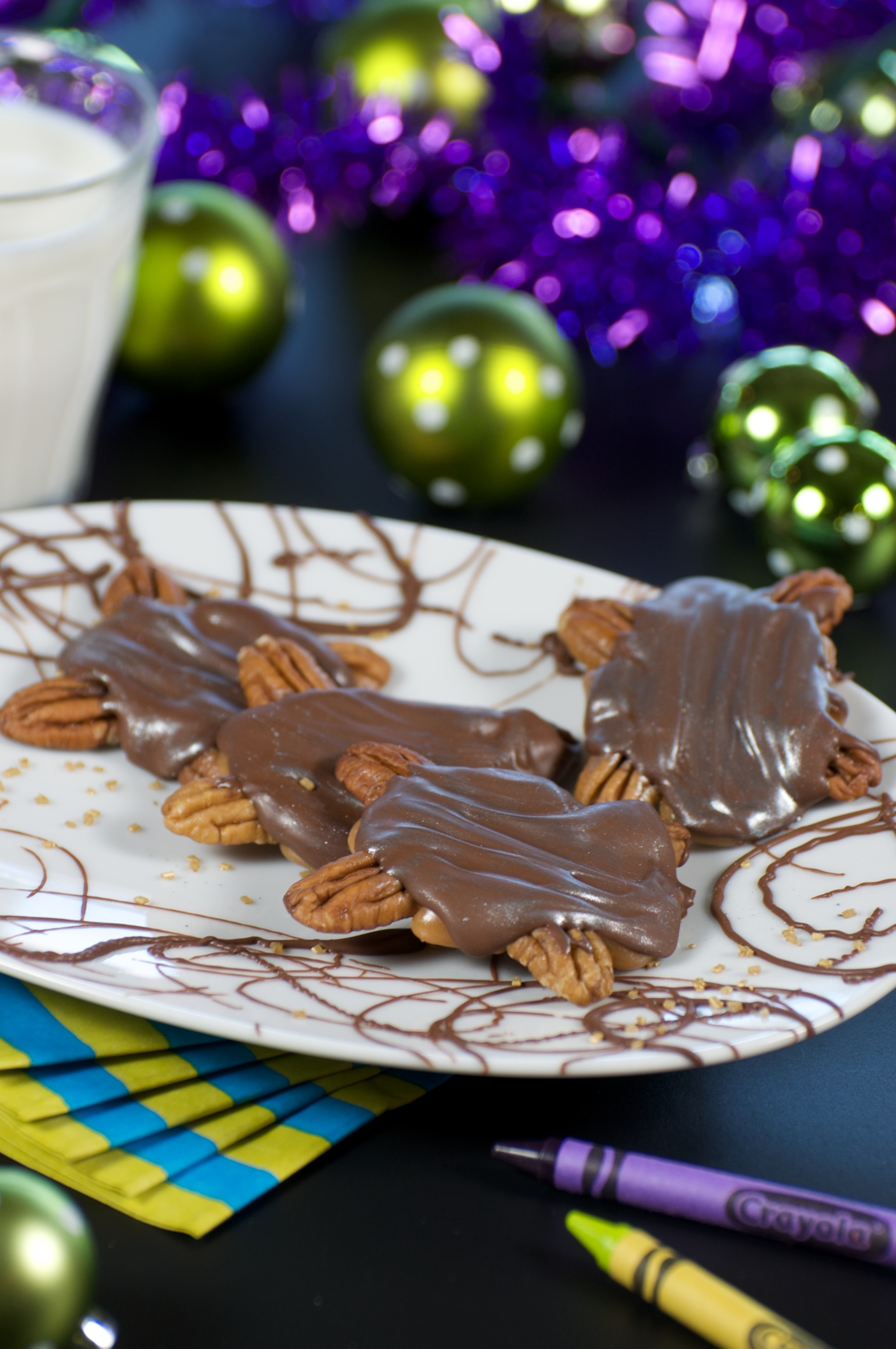 Chocolate turtles. Photographed in San Rafael, California, USA. Photographer's caption: "The Great Turtle Escape". A copy of the recipe is available at